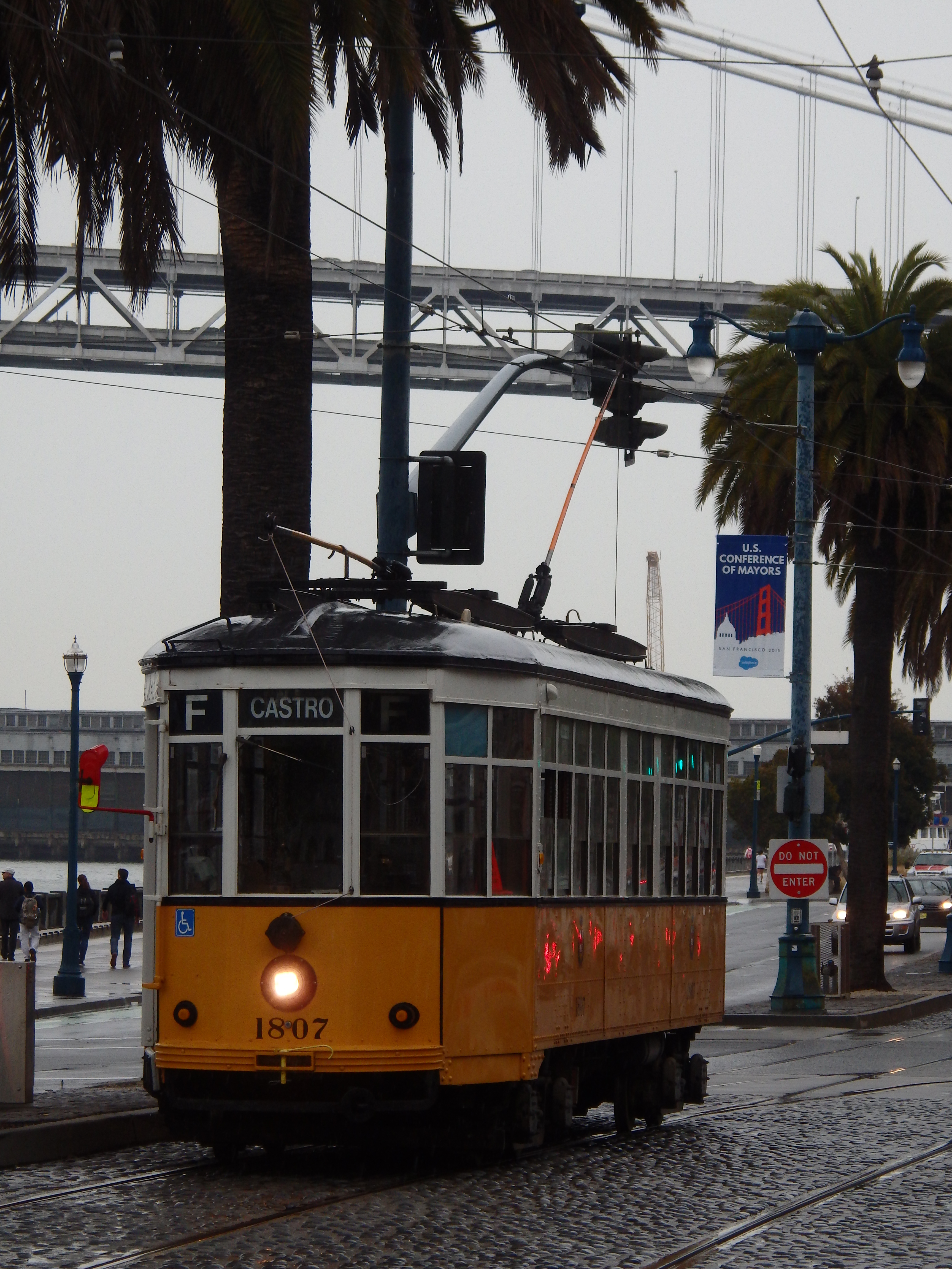 Milanese Peter Witt tram number 1807, San Francisco.